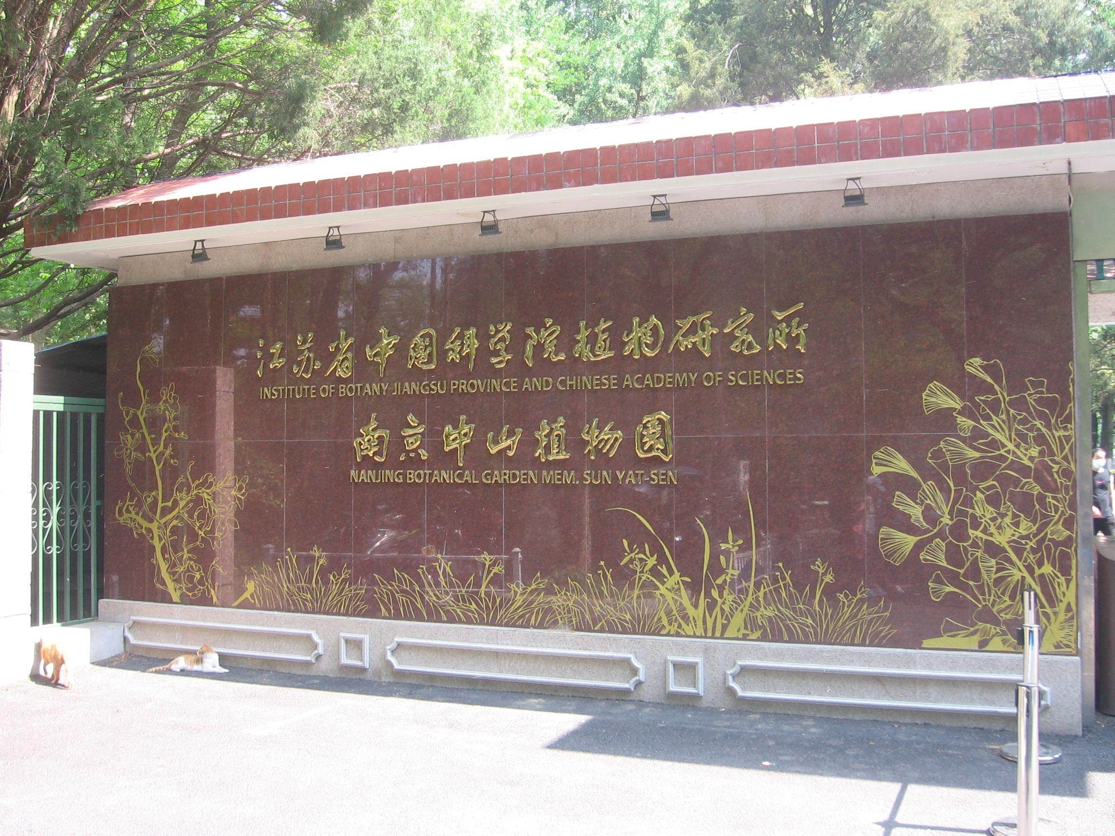 Nanjing Botanical Garden, Memorial Sun Yat-Sen in Nanjing, Jiangsu, China.